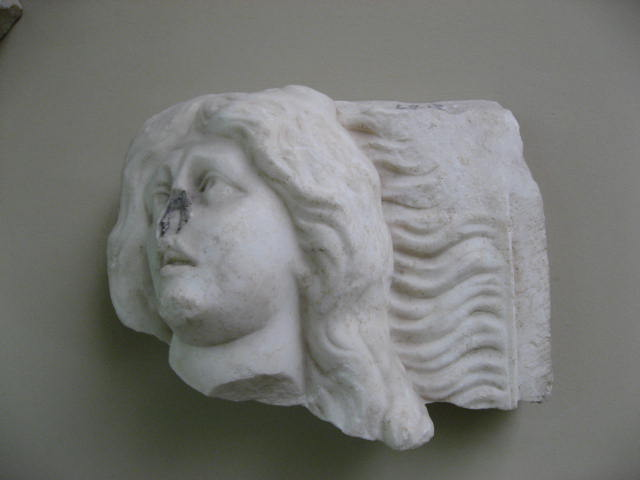 Relief fragments framed by pilasters, outer face of lateral archway of the Golden Gate. Reused elements, marble. Yedikule, museum excavations 1927. Inv. 4213 T, 4214 T, 4215 T, 4218 T, 4219 T.